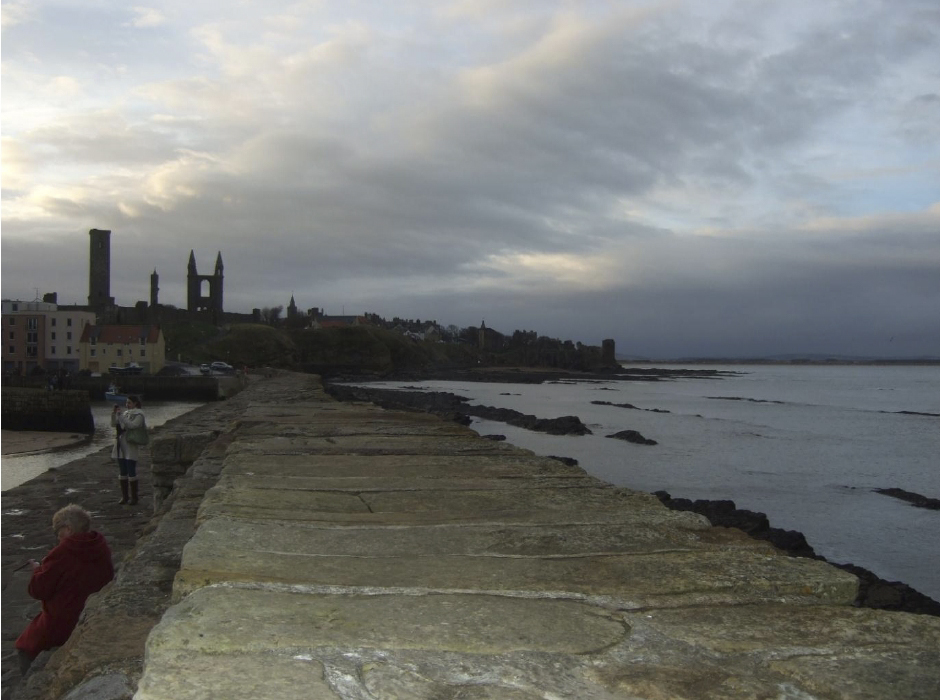 Looking towards the ruined cathedral complex of St Andrews dominated by the towers of the eastern end, from the harbour wall constructed from